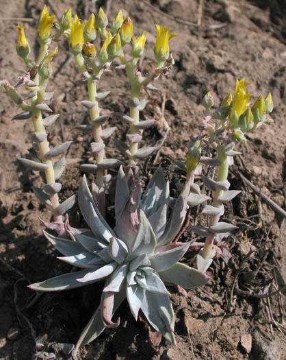 Dudleya verityi at Santa Monica Mountains National Recreation Area, California, USA. NPS photo, no copyright.